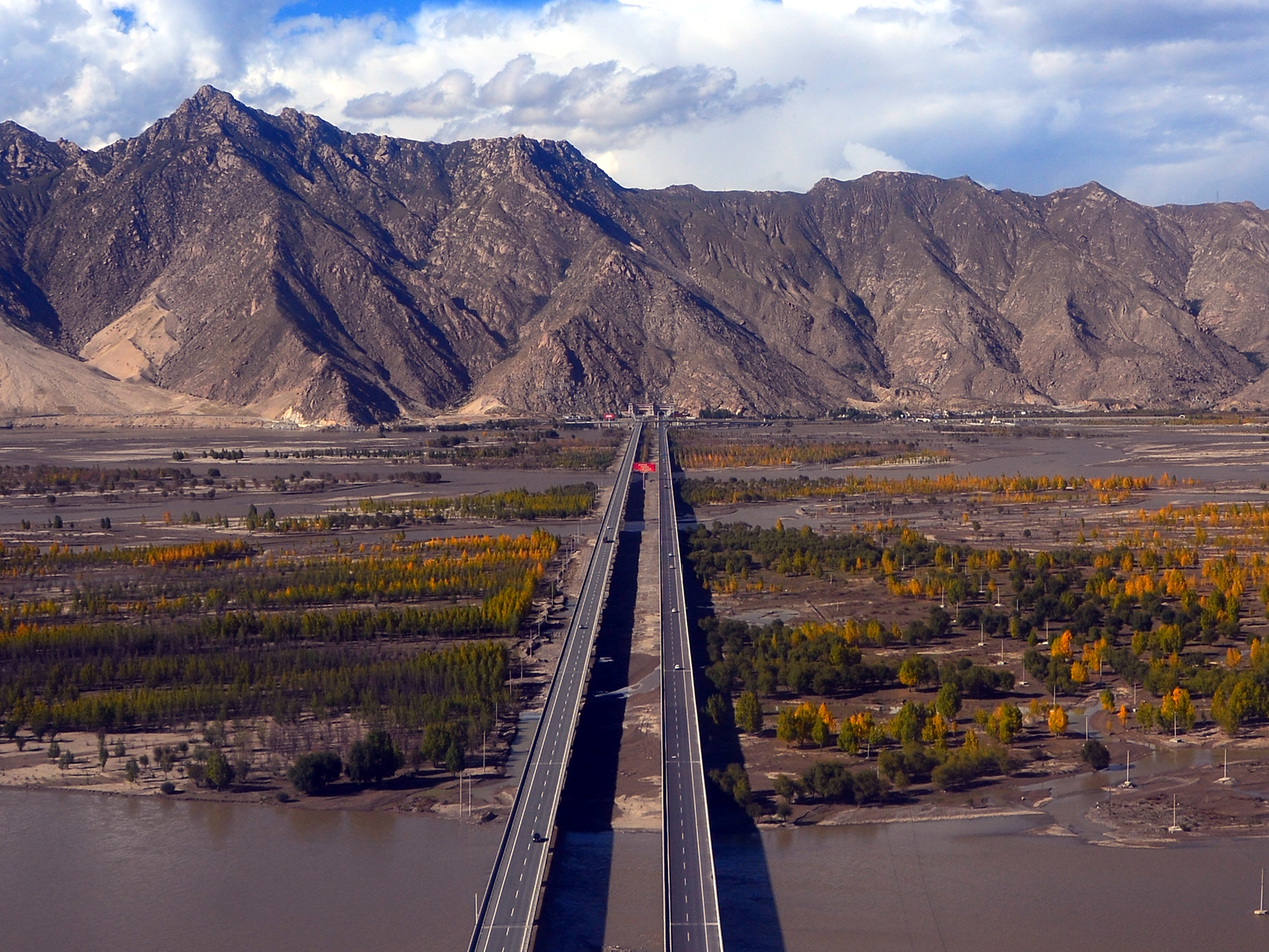 Yarlung Zangbo River Bridge